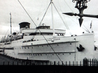 Mona's Queen pictured berthed at the Princes Landing Stage Liverpool, in the 1935 film No Limit.